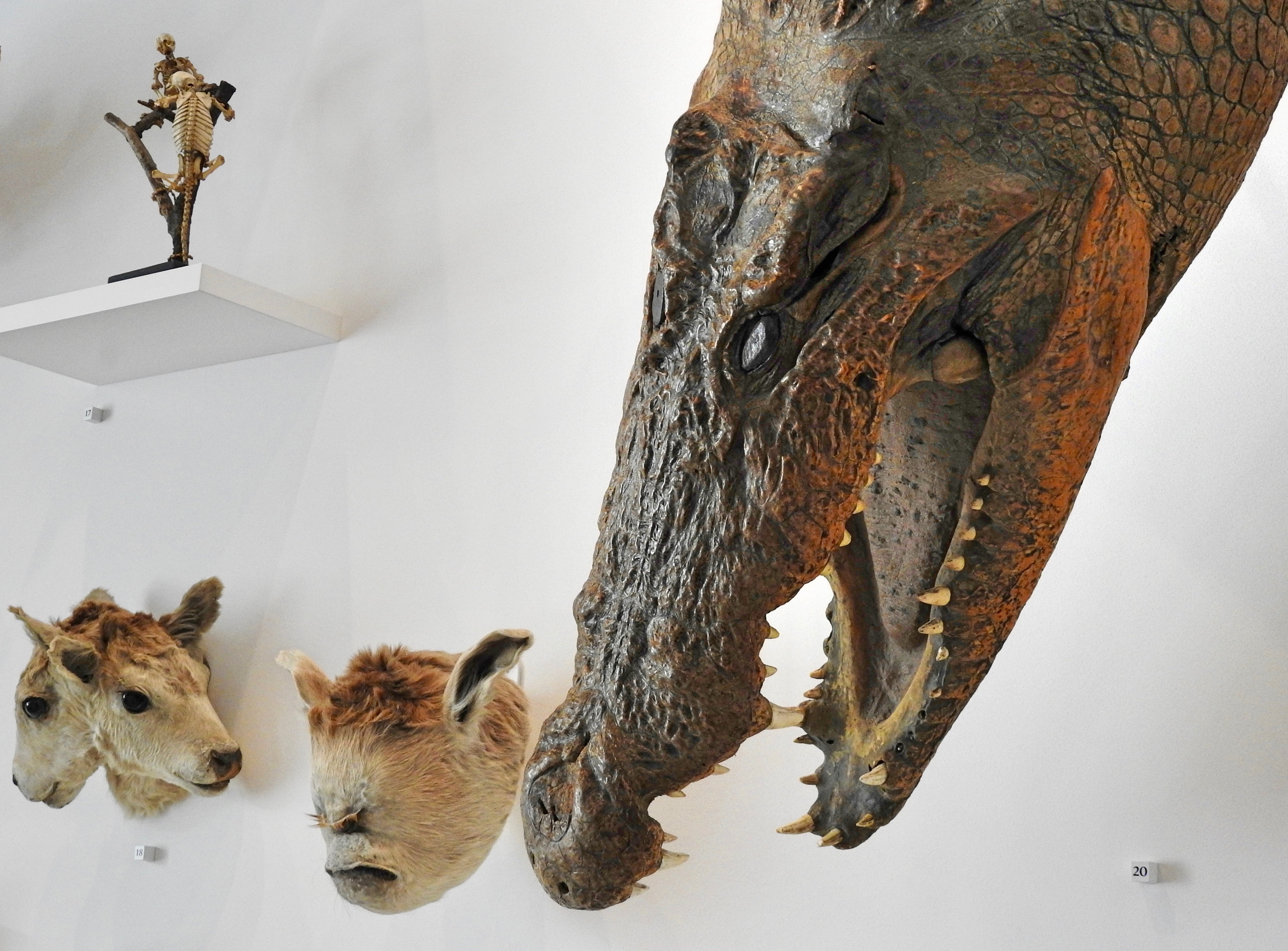 Crocodile from the Nile, 17th century. Exhibit in the Nature Museum St. Gallen, Switzerland.